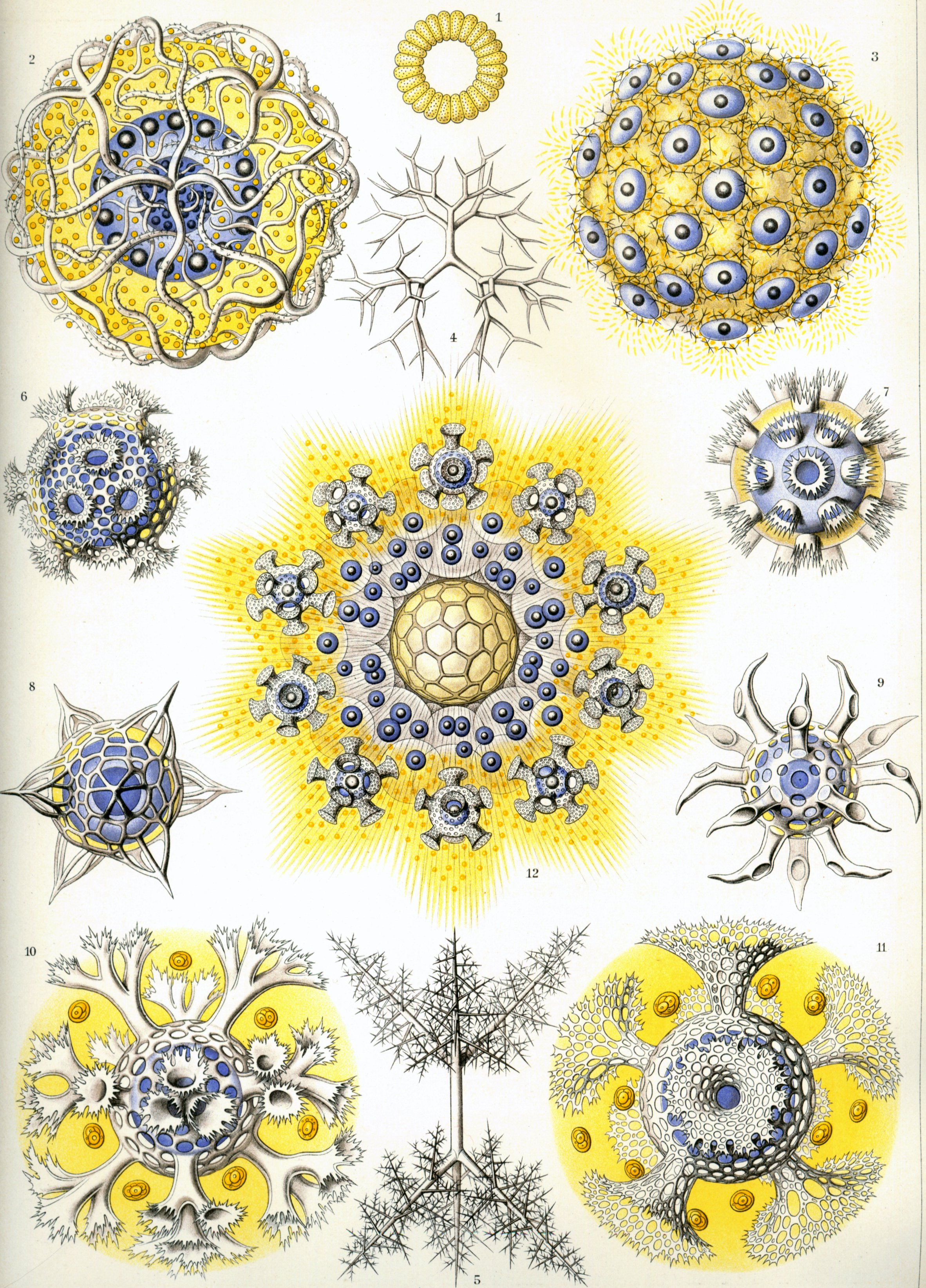 (top center, above): ' (Haeckel, 1887)?, colony with symbiotic zooxanthellae